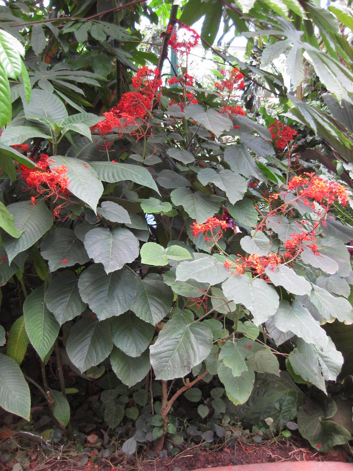 Photographed at Huntington Gardens (Los Angeles) in June